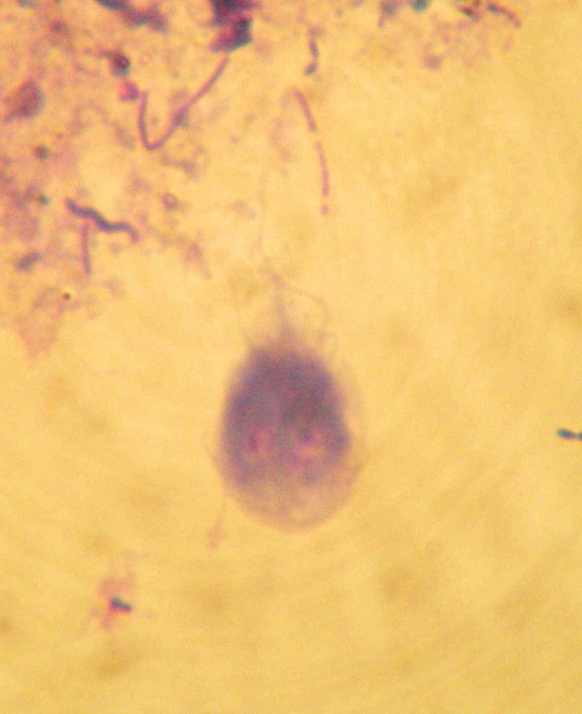 Microscopic image of Giardia intestinalis in a fecal smear from a dog. Stained with Diff-Quick, oil immersion.